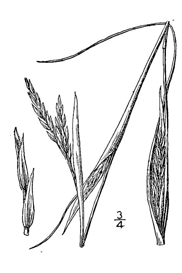 Anropogon Hallii Sand Bluestem